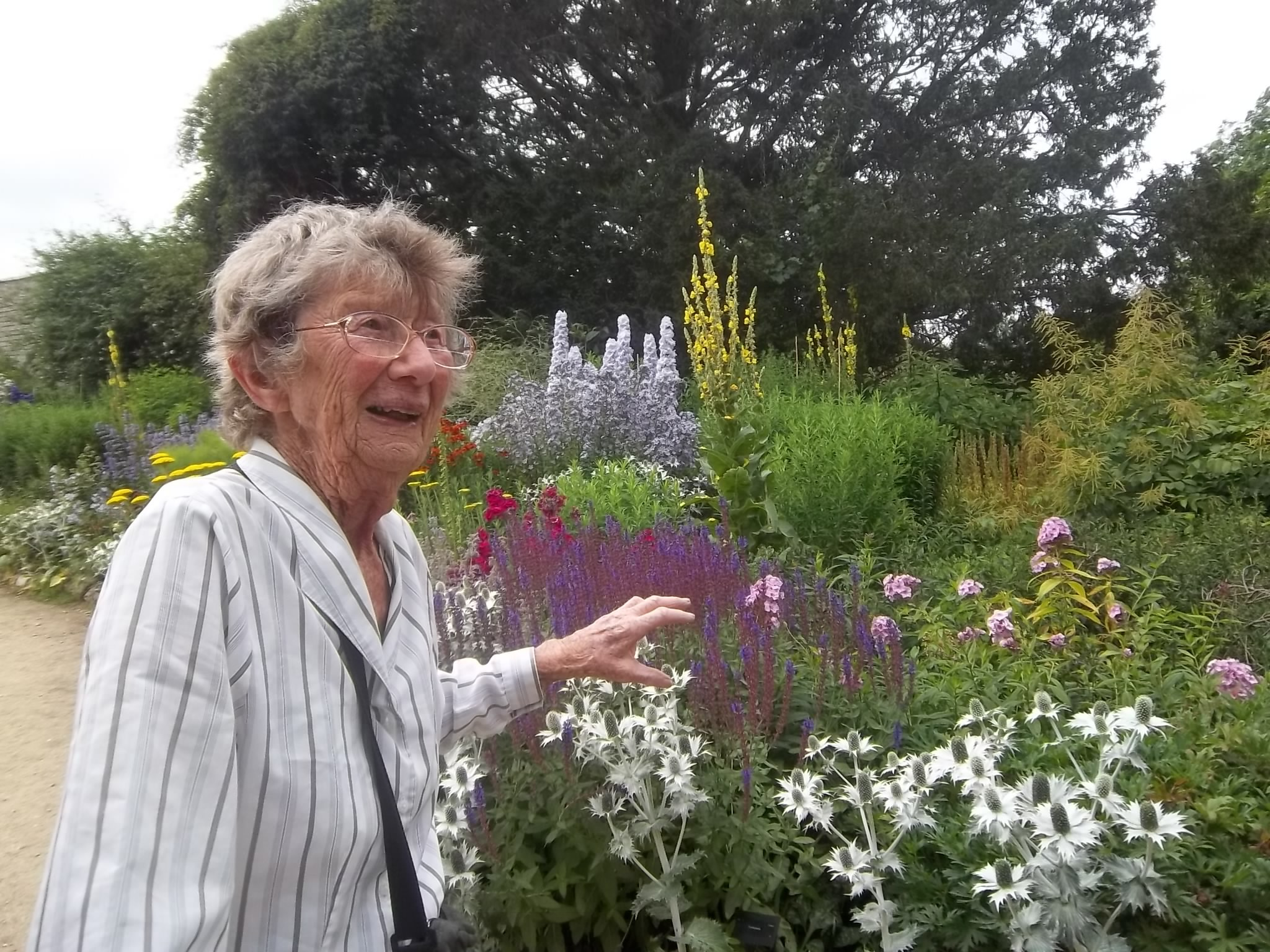 Mary with "her" herbaceous border at Waterperry Gardens in 2013